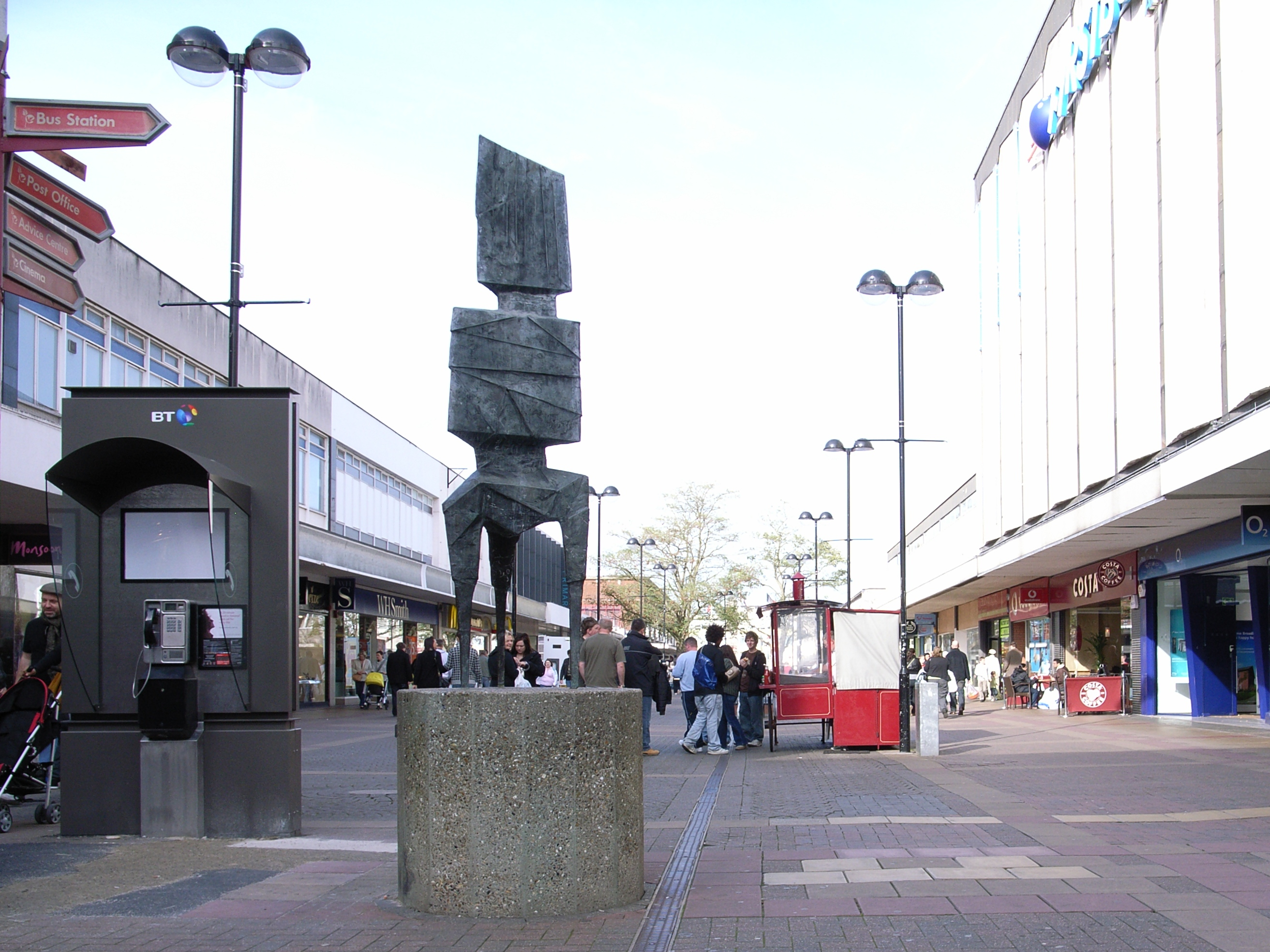 Trigon (1961) by Lynn Chadwick, Harlow, Essex. Photo taken on a tour of Frederick Gibberd's work in London and Harlow with the 20th Century Society.